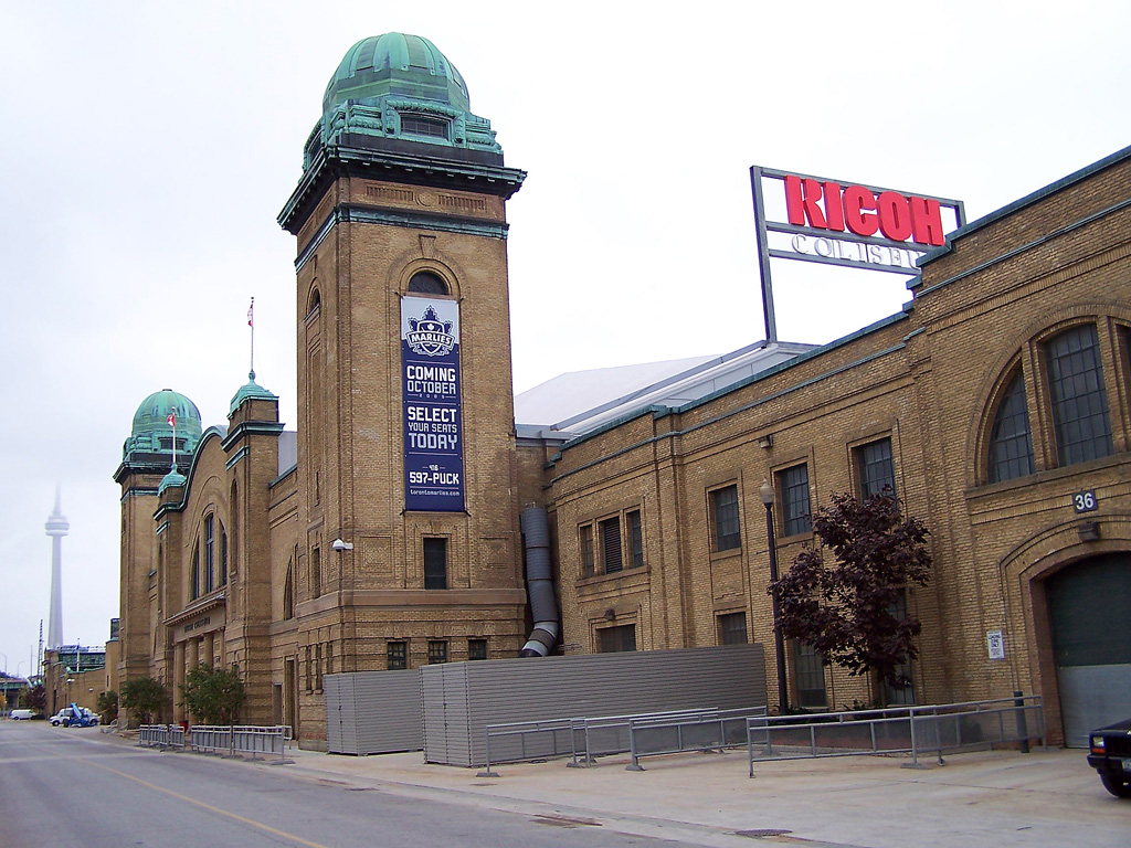 The exterior of the Ricoh Coliseum in Toronto, Ontario, Canada.